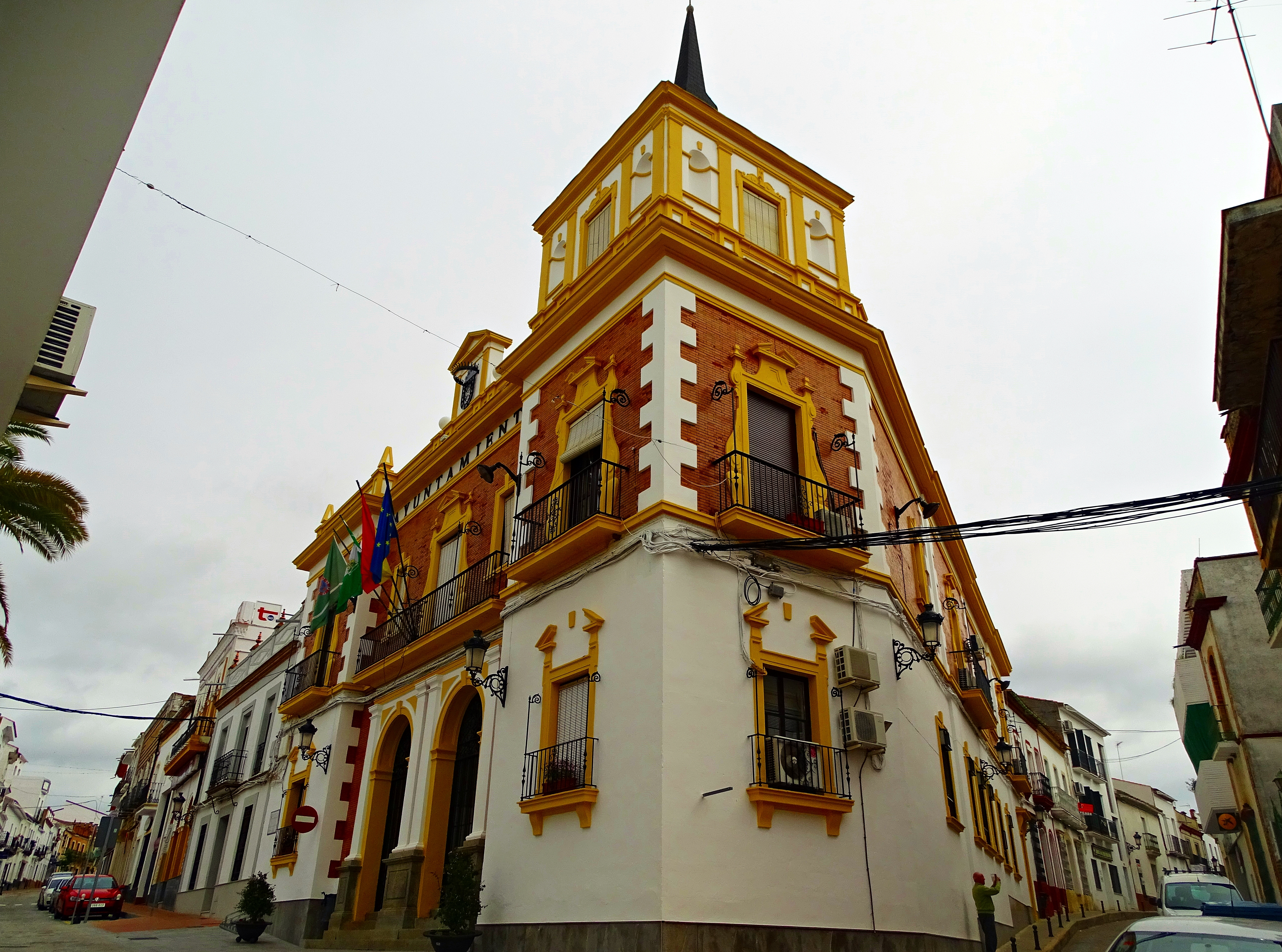 Valverde del Camino.